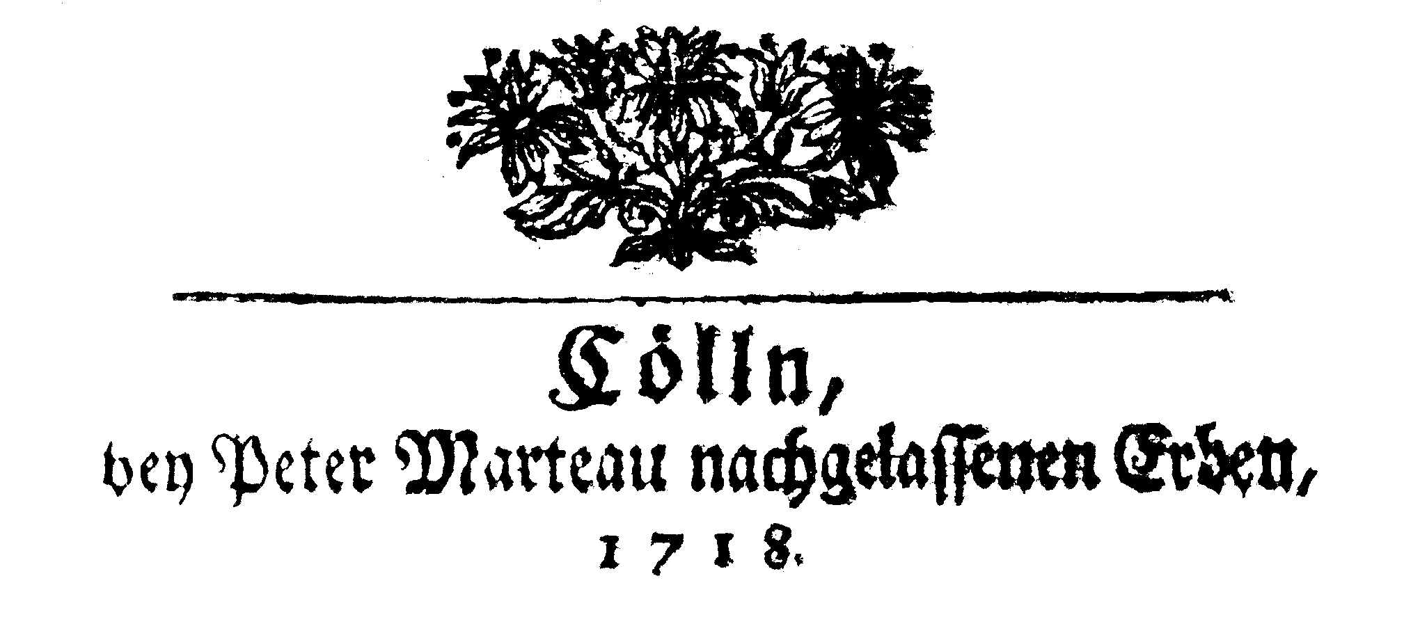 Ornament and Imprint of a German Marteau Book published in 1718 from: Die